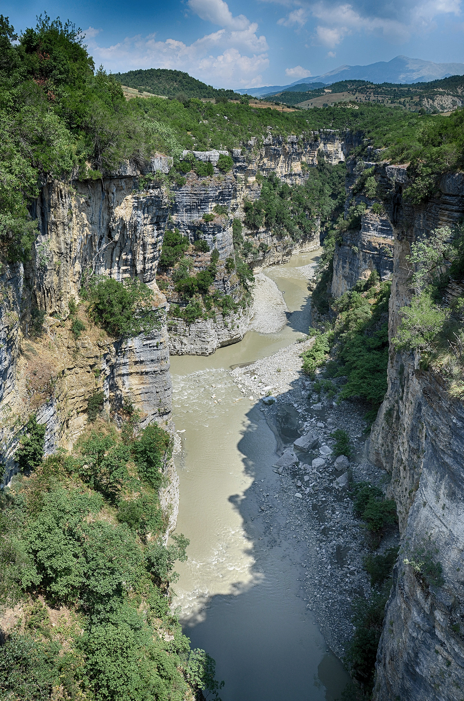 Osum Canyon, Skrapar, Albania